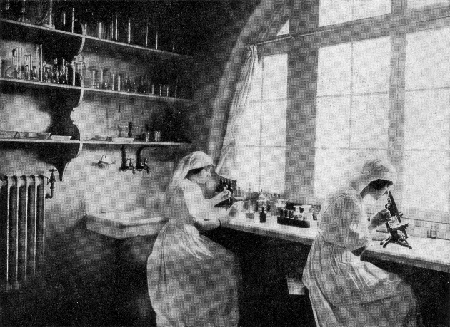 WOMEN ENGAGED IN RESEARCH WORK FOR THE BENEFIT OF FRENCH SOLDIERS. This war has given women their opportunity, which they have not been slow to seize upon; but in no sphere of usefulness has this been more pronounced than in Red Cross work. Here nurses are seen engaged in research work to benefit the particular cases they have in hand.